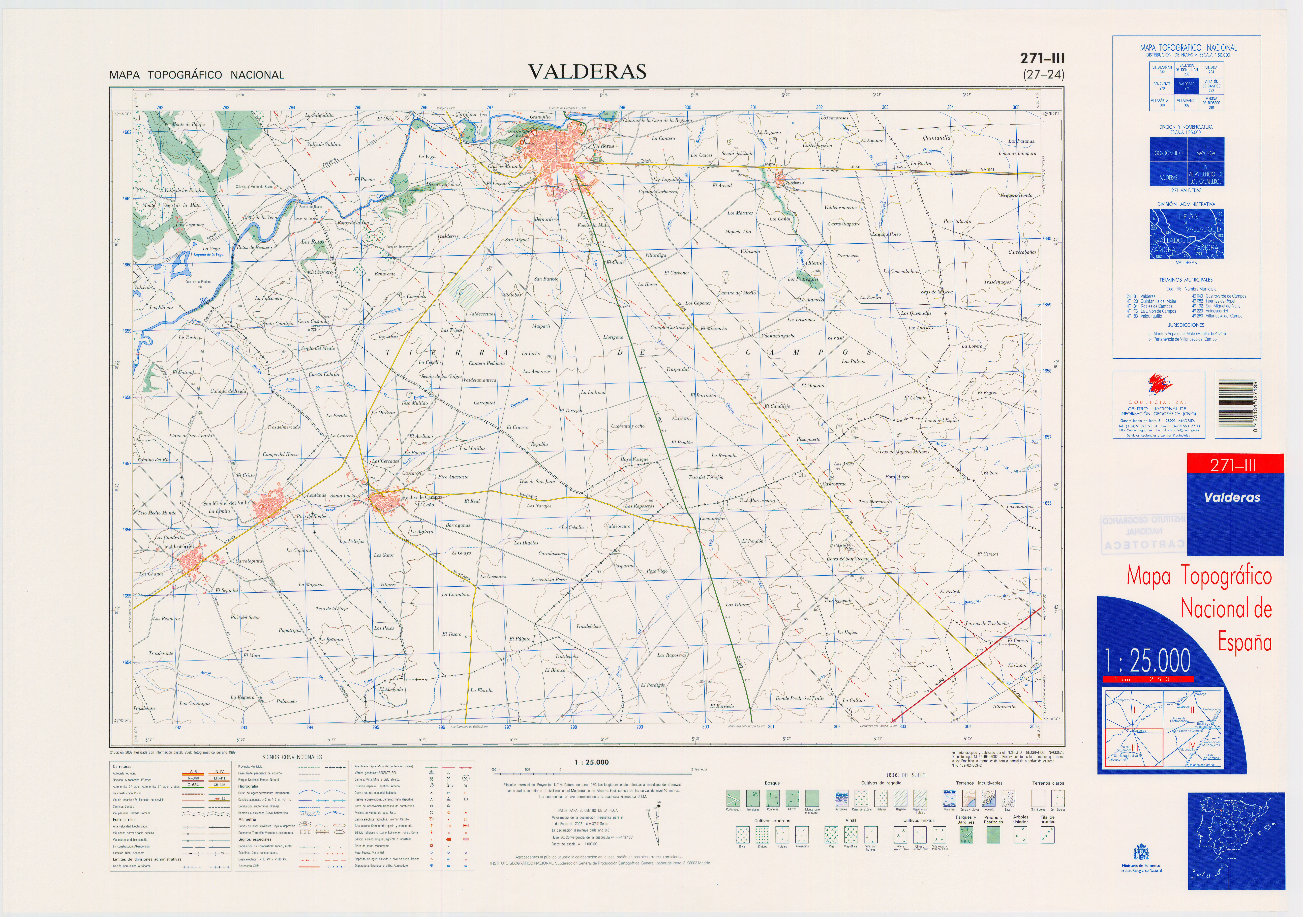 Fragment 0271c3 of the National Topographic Map of Spain in 2002 at a scale of 1:25000 printed and scanned with a resolution of 250 ppi. It shows Valderas.